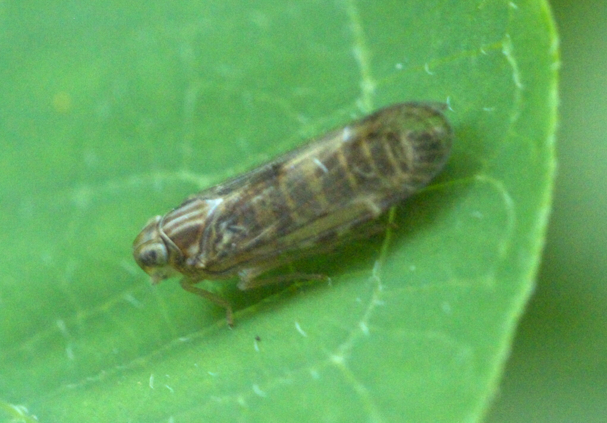 Haplaxius, Family: Cixiid Planthoppers, ID Confidence: 98